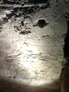 Viking ship in the royal palace in Palermo